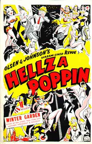 Original poster for Hellzapoppin. No copyright markings are seen on the poster when examined. Further, a copyright renewal search for "Hellzapoppin" was done for works of art copyright renewals for 1965 and 1966. No renewals were found. Note that the file was previously licensed as a non-free poster. Changed to PD-pre-1978 (see talk page).